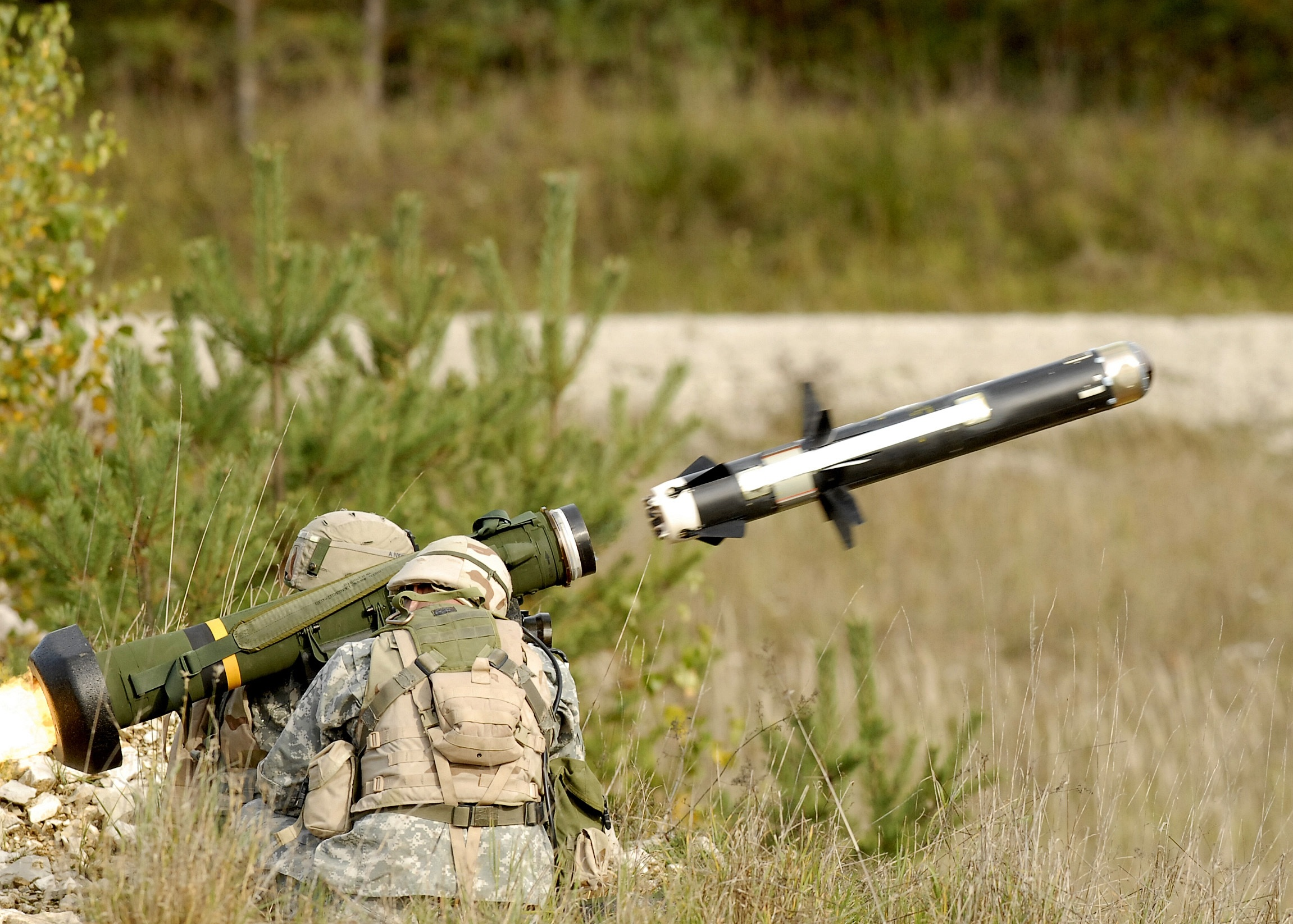 Mission: Provide a man-portable, highly lethal and survivable medium anti-tank weapon system to the infantry, scouts, and combat engineers. Entered Army Service: 1996 Description and Specifications: Javelin is the first "fire-and-forget" shoulder-fired anti-tank missile now fielded to the U.S. Army and U.S. Marine Corps, replacing Dragon. Javelin's unique top-attack filght mode, superior self-guiding tracking system and advanced warhead design allows it to defeat all known tanks out to ranges of 2500m. Javelin's two major components are a reusable command launch unit (CLU) and a missile sealed in a disposable launch tube assembly. The CLU's integrated day/night site provides target engagement capability in adverse weather and countermeasure environments. The CLU also may be used by itself for battlefield surveillance and reconnaissance. Javelin is fielded with no specific test measurement or diagnostic equipment - allowing our forces to deploy rapidly and unencumbered. Javelin's fire-and-forget guidance mode enables gunners to fire and then immediately take cover, greatly increasing survivability. Special features include a selectable top-attack or direct-fire mode (for targets under cover or for use in urban terrain against bunkers and buildings), target lock-on before launch, and a very limited back-blast that enables gunners to safely fire from enclosures and covered fighting positions. Javelin can also be installed on tracked, wheeled or amphibious vehicles. Weight (missile and CLU): 49.5 lbs Length overall: 3 ft 6 in Range: In excess of 2500m Crew: 2 Manufacturer: A joint venture between Raytheon (Tucson, AZ) and Lockheed Martin (Orlando, FL).